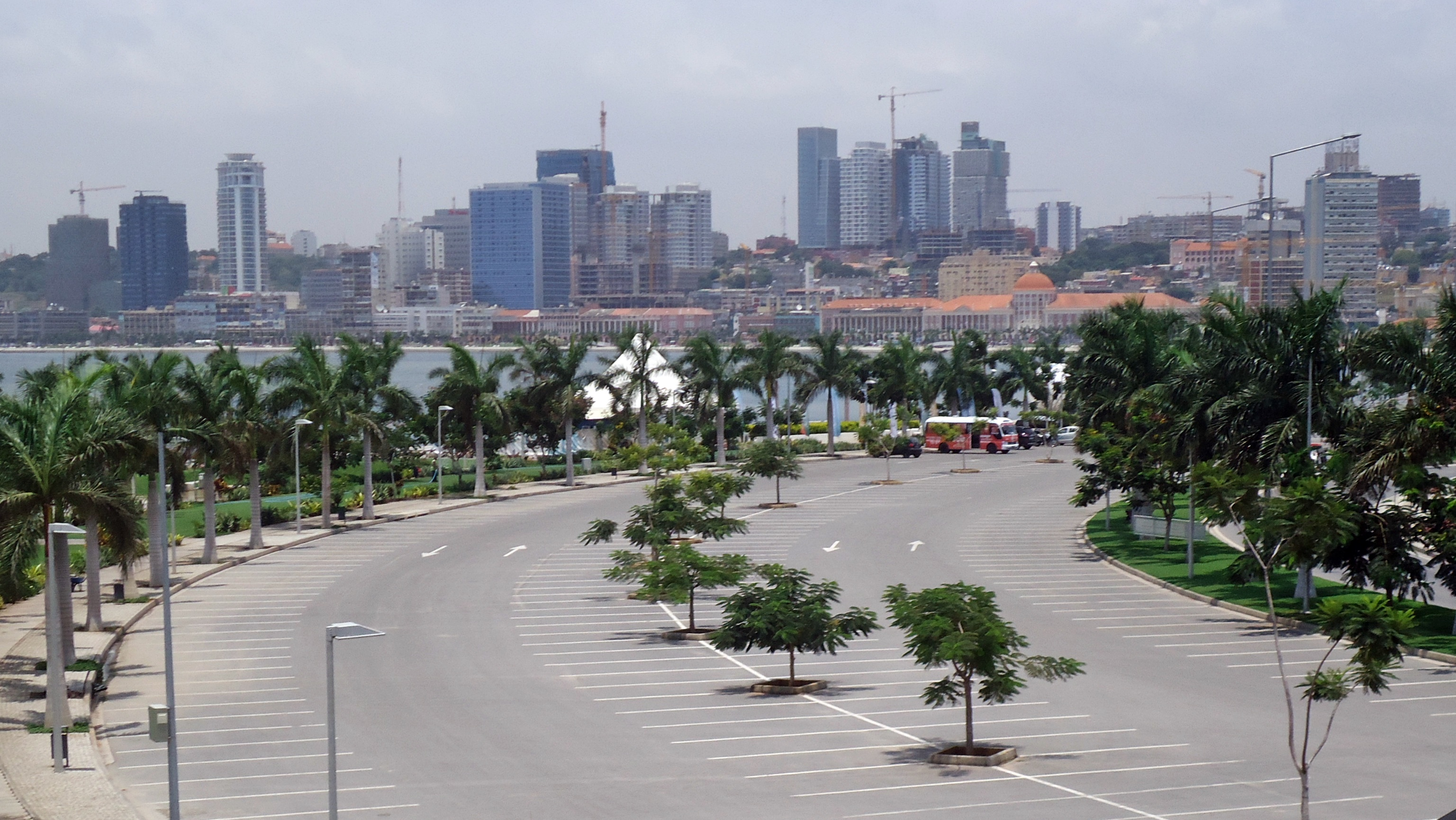 Marginal Avenida 4 de Fevreiro. Photo by Fabio Vanin, Luanda, 2013.